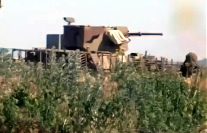 Ukrainian government troops self-propelled gun firing in Donbass.